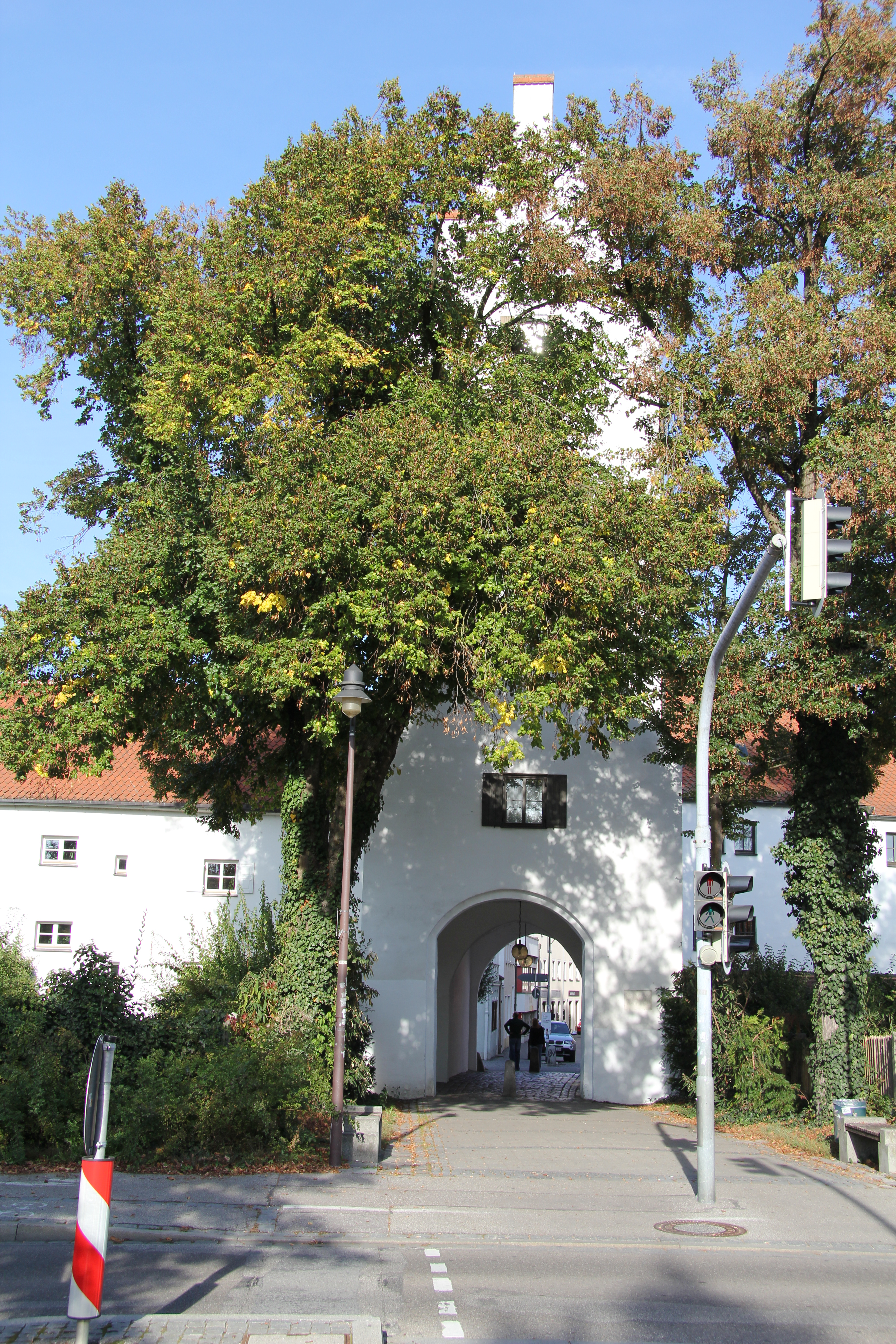 Ingolstadt, city gate in the Taschenturm from southwest